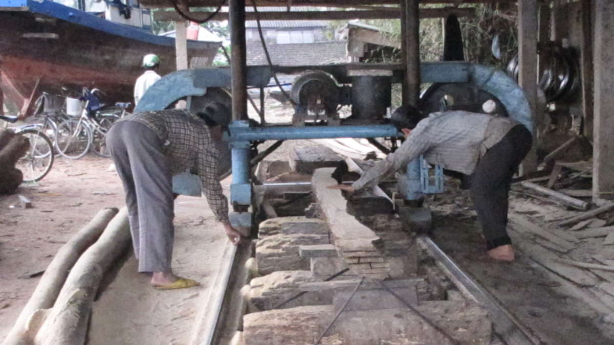 Tags, boat building, Hoi an, Vietnam